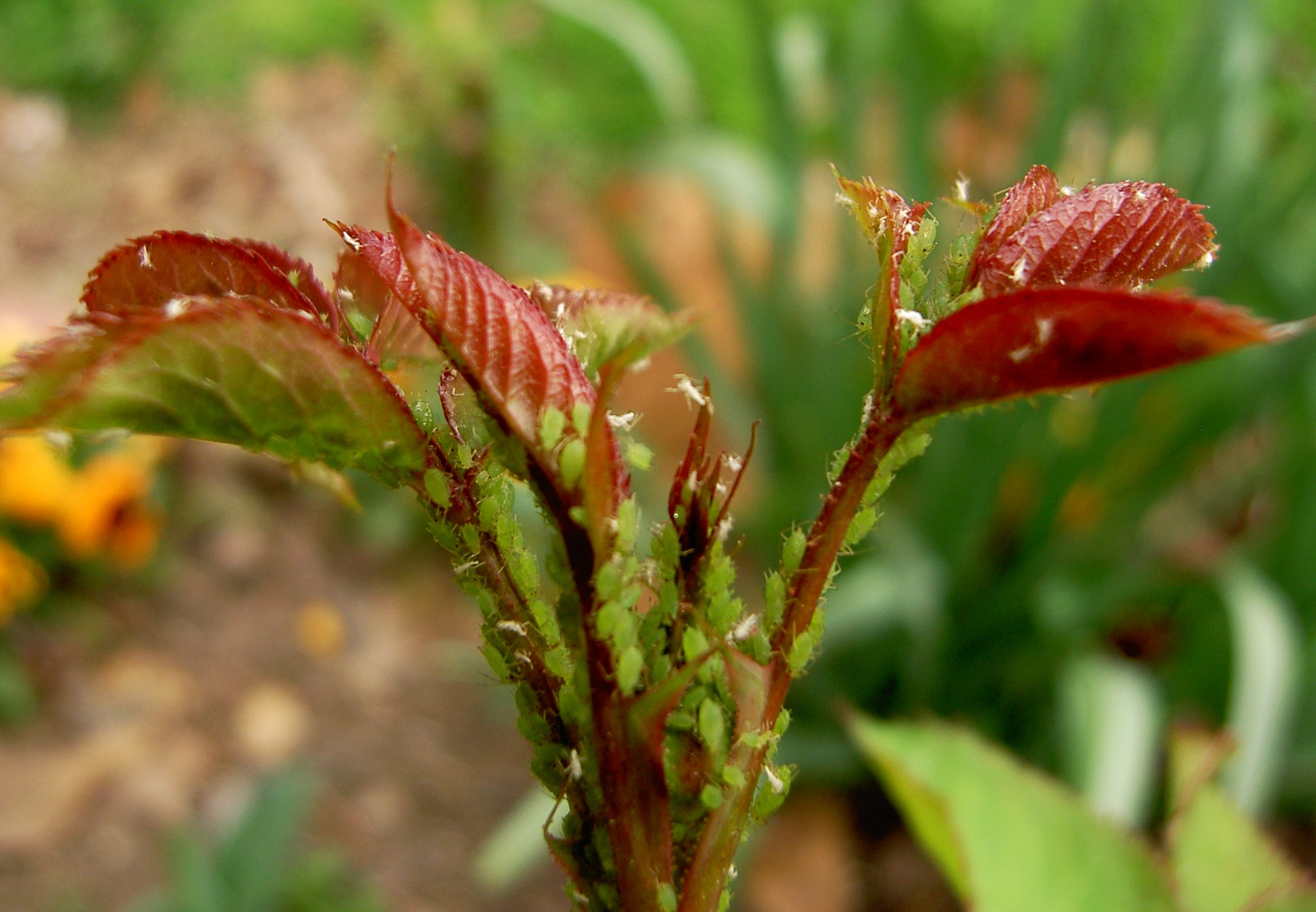 Aphids on a rosebush.